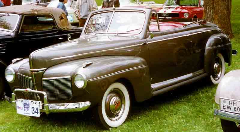 1941 Mercury Series 19A Club Convertible Coupé